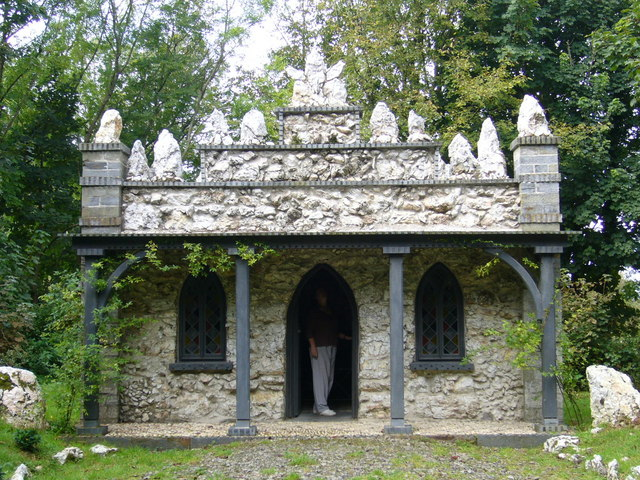 Cilwendeg Shell House Hermitage. To quote from a leaflet available at 572018: "this is a most remarkable ornamental grotto, and a rare survival in West Wales. It was built in the late 1820s for Morgan Jones the Younger (1787-1840), who inherited the Cilwendeg estate upon the death of his uncle. It is believed the ladies of Cilwendeg Mansion devised the original patterns for the interior decoration. This consists of a profusion of native seashells, minerals and coloured glass fragments arranged in primitive patterns and impressed into lime mortar panels." Details of a dig before its recent restoration